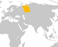 The Muslim empire of Siberia (Khanate of Sibir)